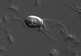 Single Salpingoeca rosetta Cell with Theca